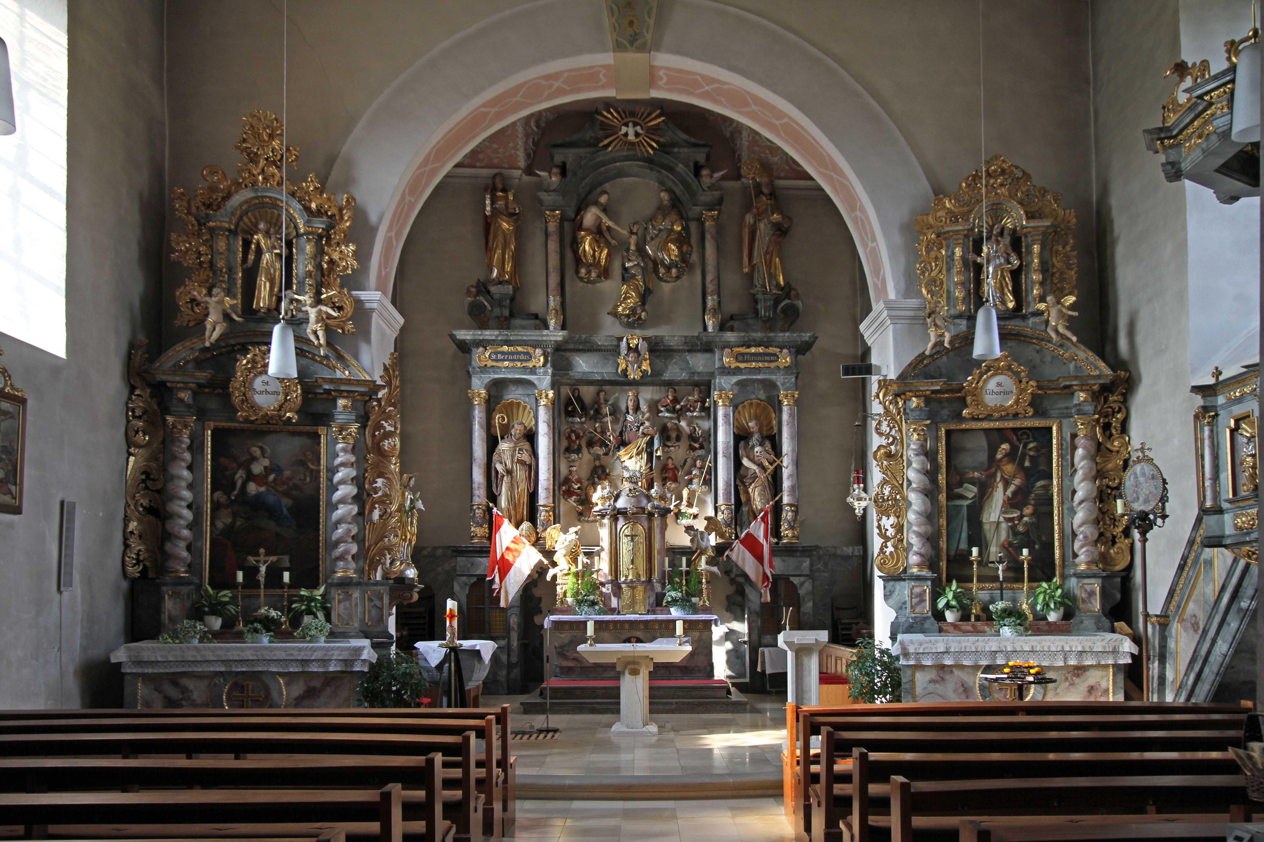 Church of St. Barbara in Oberschwappach, interior decoration.